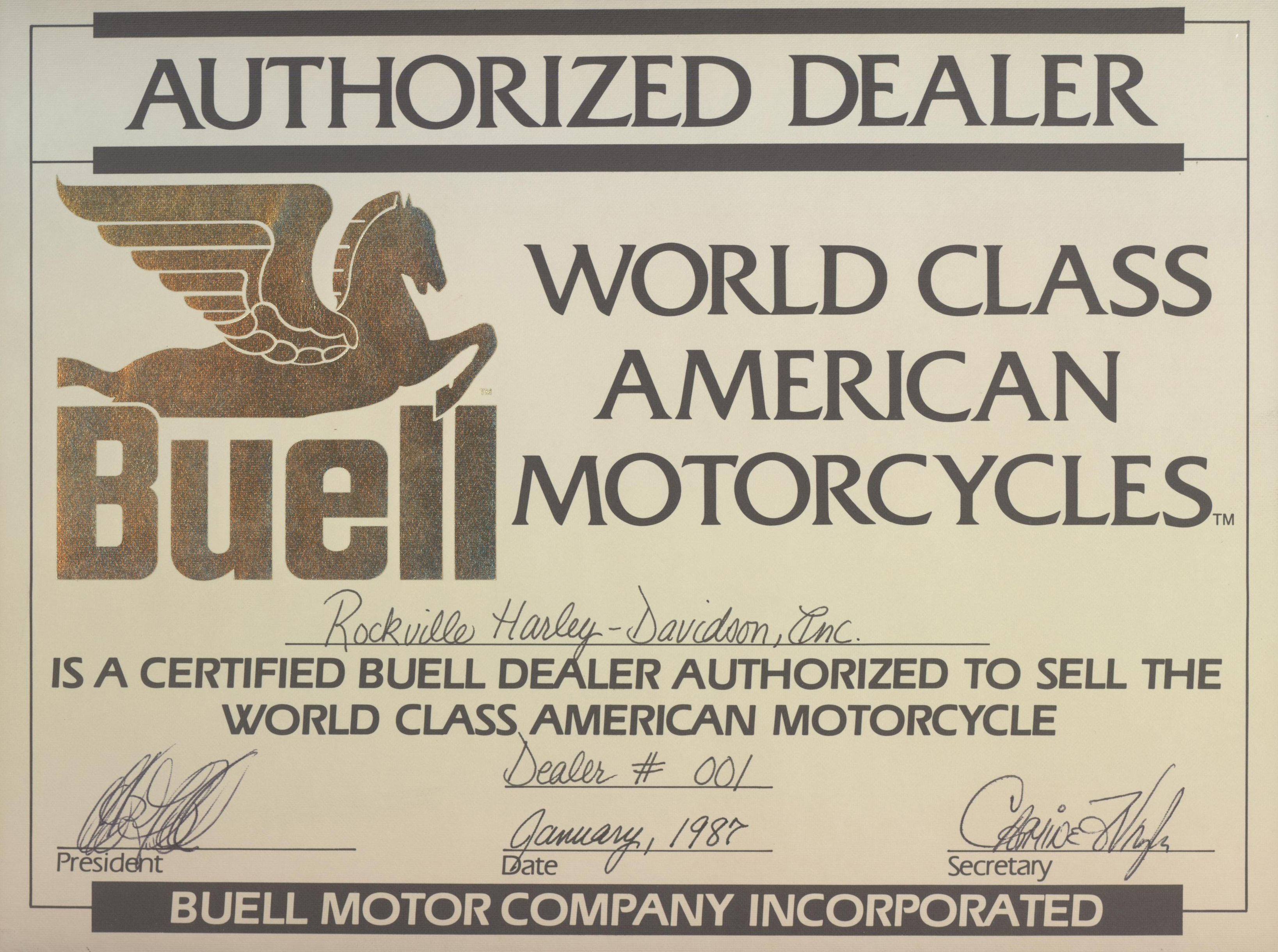 A scan of a certificate from the Buell Motorcycle Company awarding dealership #001 to Devin Battley of Rockville Harley-Davidson signed by Erik Buell in 1987